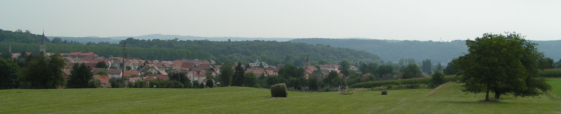 General view of Mandeure, France.